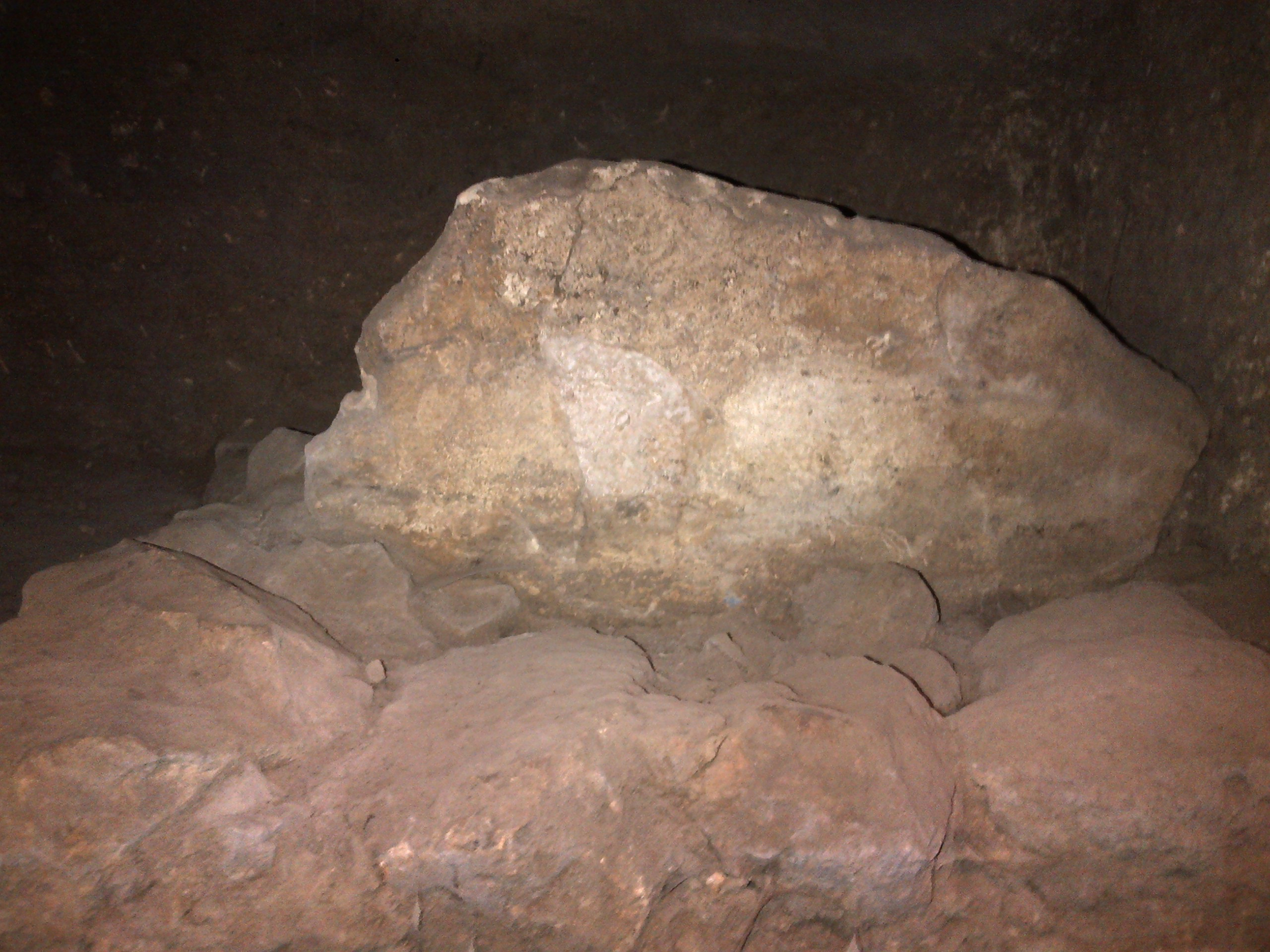 Matzevah at the upper ridge on the eastern slopes of the City_of_David.